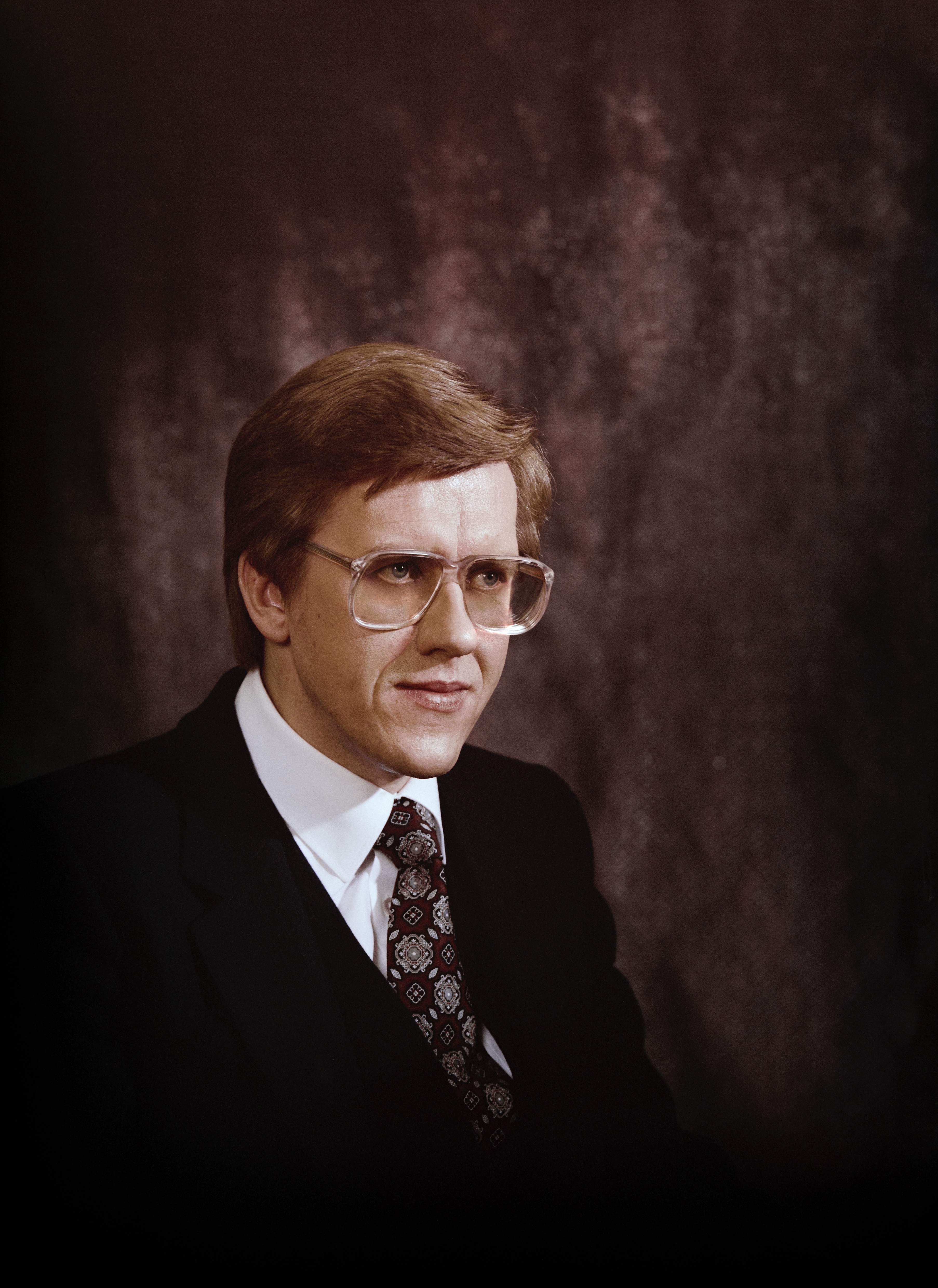 Photograph of the Finnish preacher and writer Leo Meller (1942–).